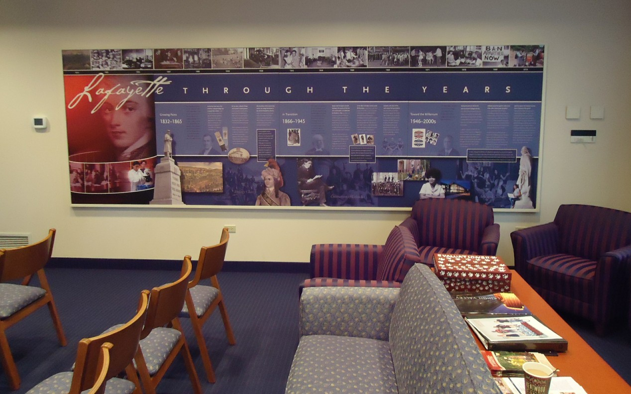 A photo from a campus tour of Lafayette College in Easton, Pennsylvania, on May 31, 2012 (correct date; 2011-06-01 is incorrect).